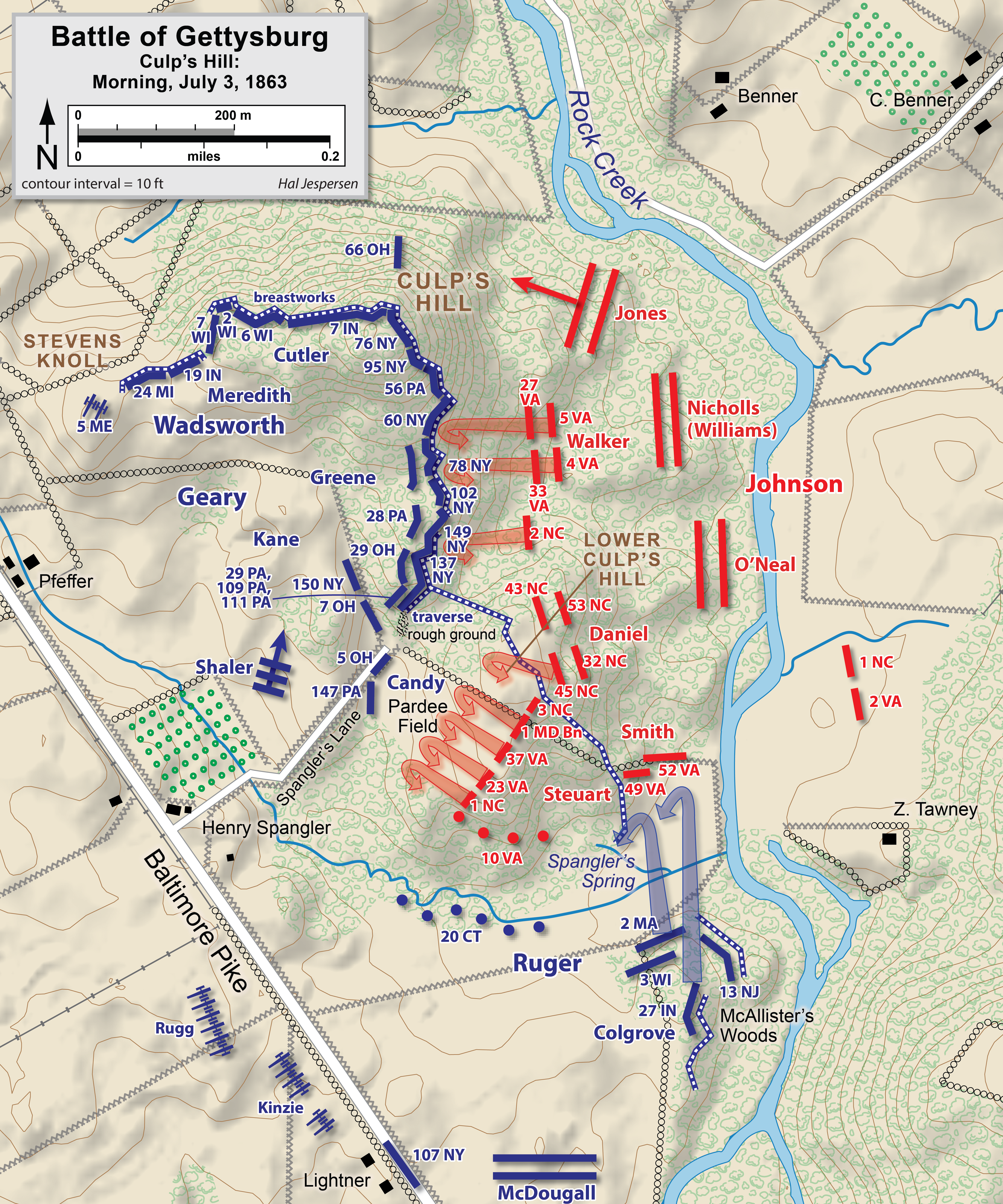 (Map of actions in the Battle of Gettysburg, third day, Culp's Hill. Drawn by Hal Jespersen in Macromedia Freehand. Graphic source file is available at New version improves accuracy of unit positions and graphic style that matches others in the Gettysburg series. Drawn by Hal Jespersen in Adobe Illustrator CS5. )